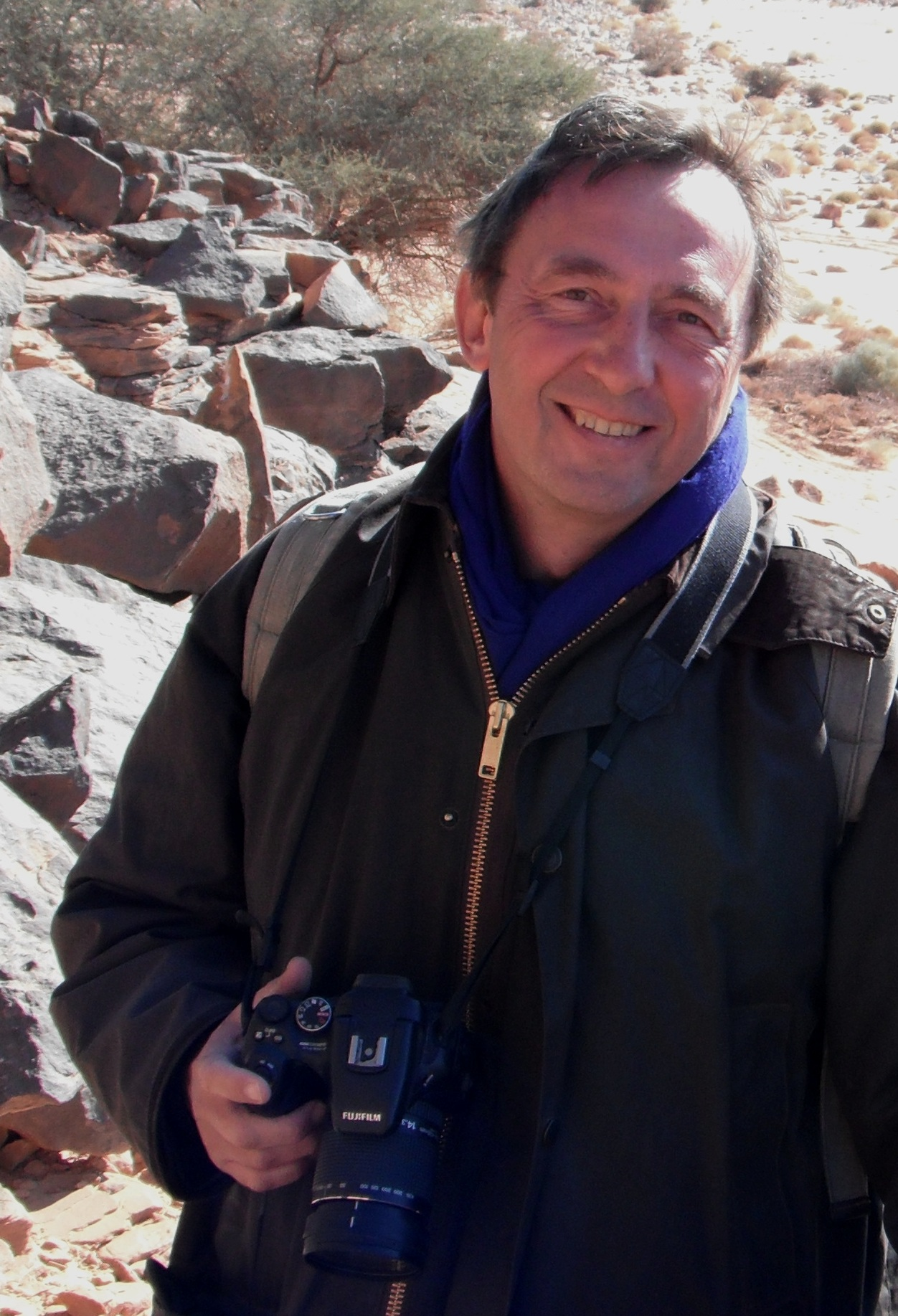 Picture of Professor Robert Andrew Foley, taken at Mathendous rockart site in Southern Libya, 2011